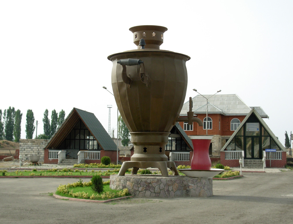 The Samovar. Lenkoran, Azerbaijan